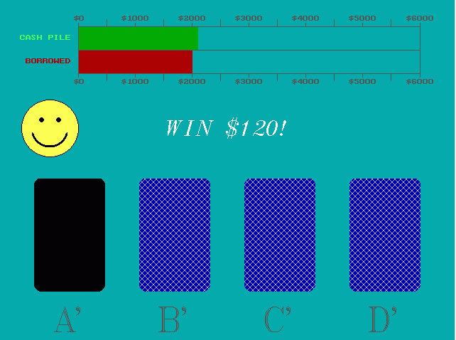 Screen grab of the Iowa Gambling Task. Permission given by test's author, Dr. Antoine Bechara.